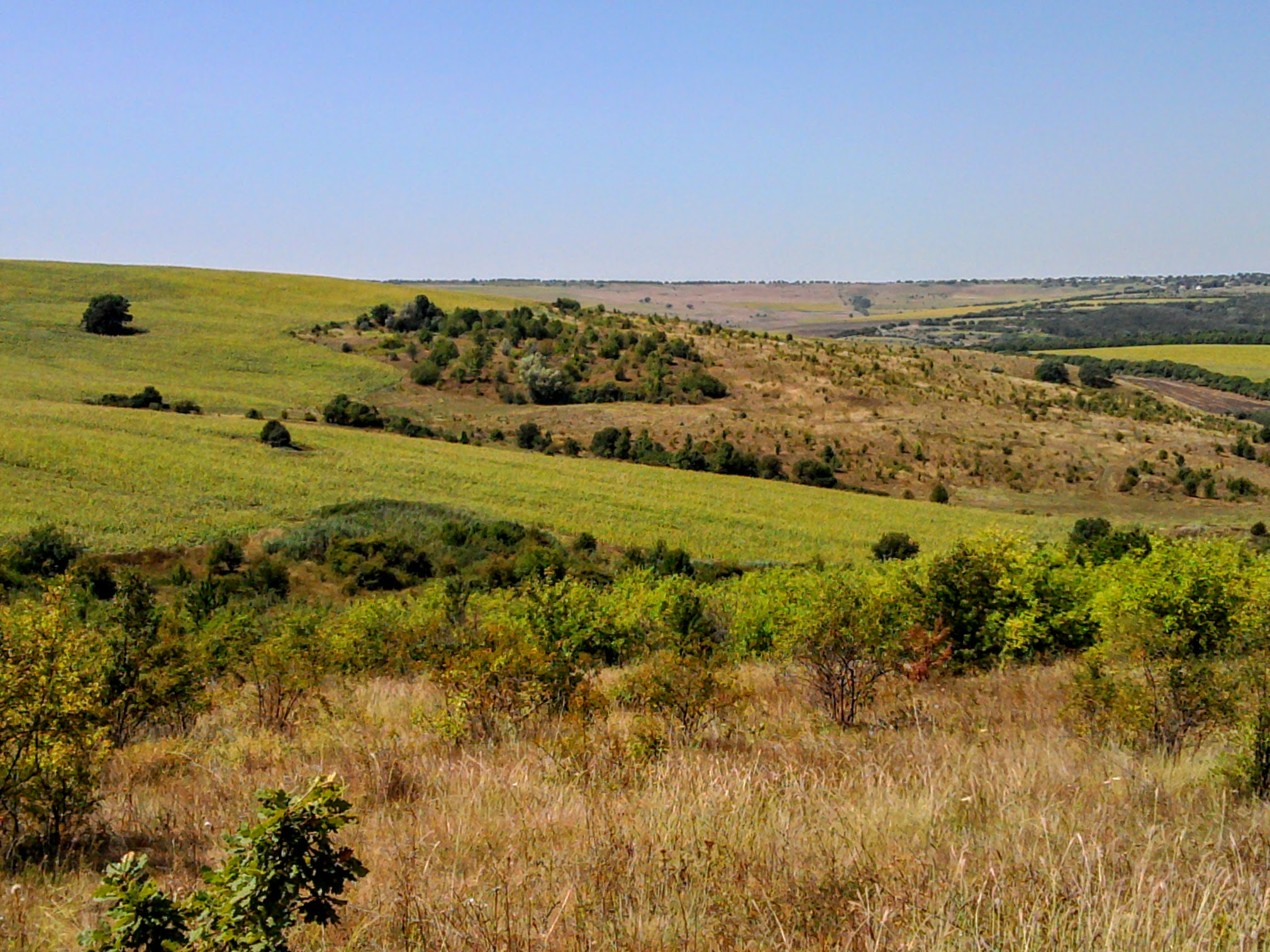 Unnamed Road, Sagaidac, Moldova